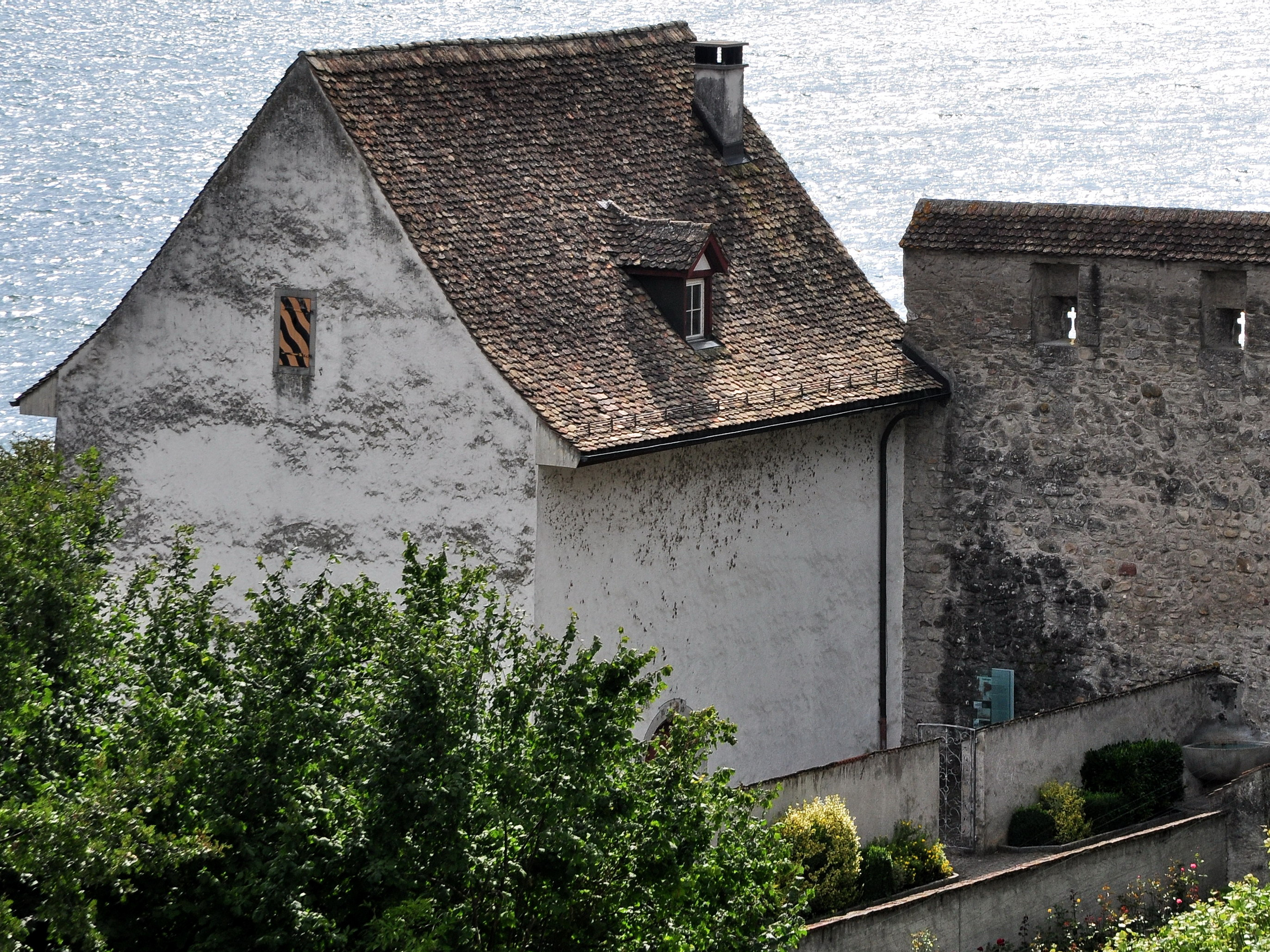 Rapperswil (Switzerland) : Einsiedlerhaus as seen from Lindenhof nearby the caslte.